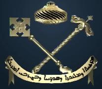 Emblem of Syriac Orthodox Church